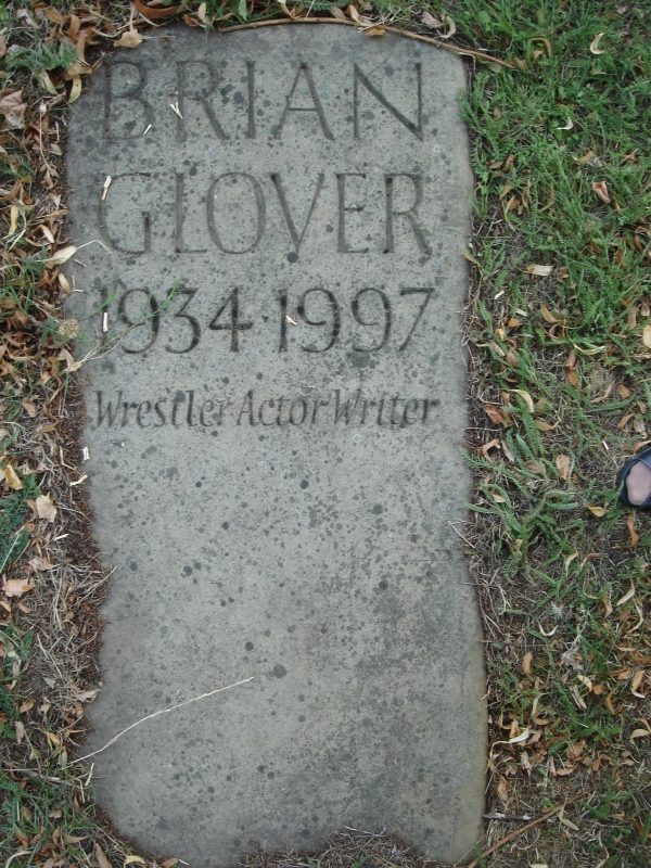 The gravestone of Brian Glover.